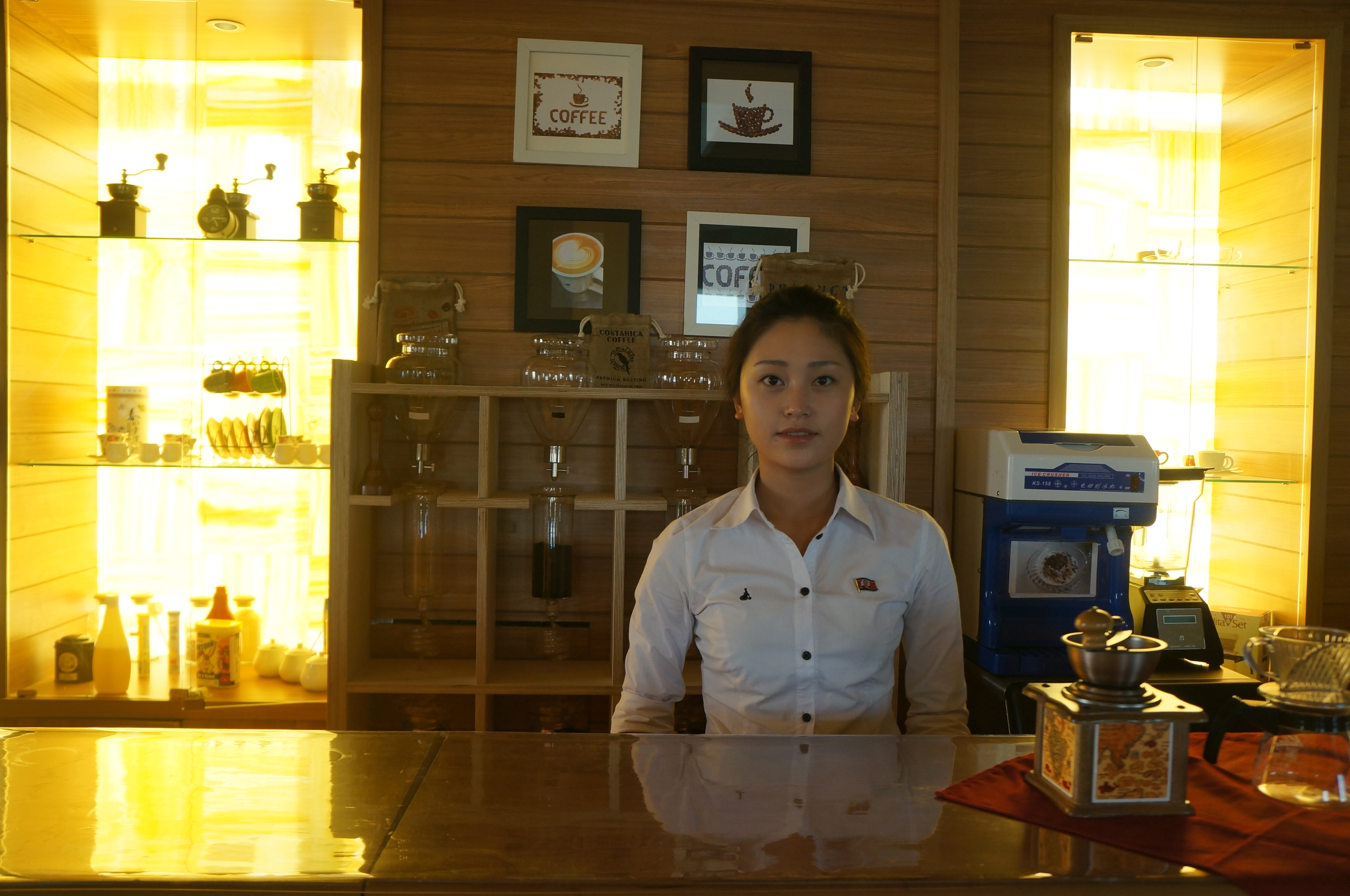 One of the best coffee shops in North Korea, located right next to the Pyongyang Hotel. DPRK For more on coffee in North Korea, visit